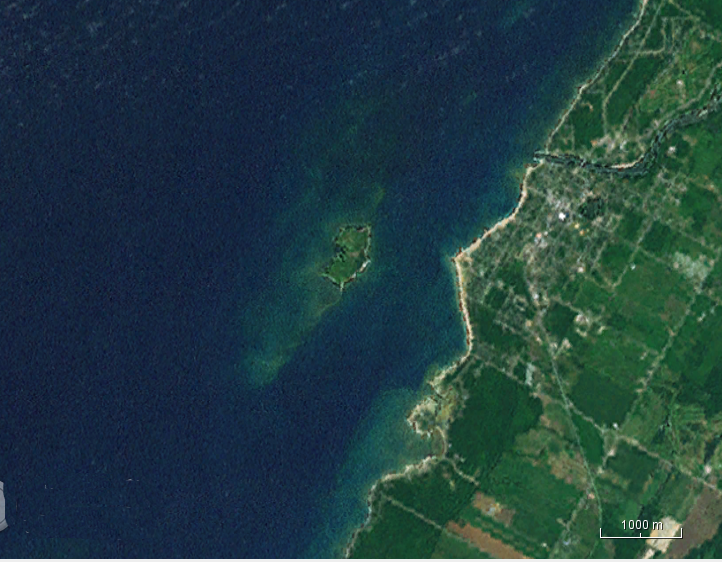 NASA Landsat image of Chantry Island, Ontario. Cropped by the uploader.